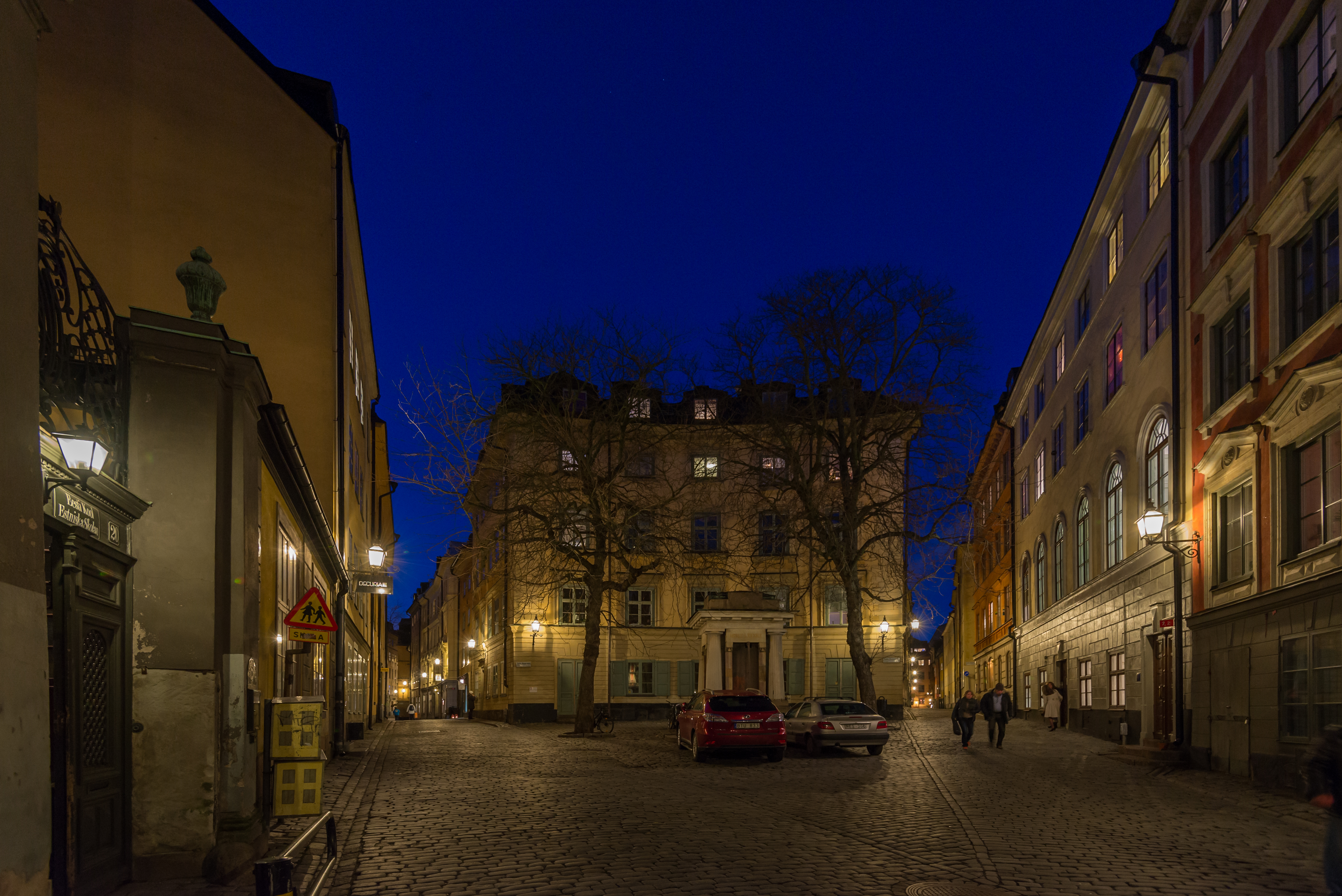 Tyska brunnsplan (Swedish: "German Well Square") is a small, triangular public square in Gamla stan (Old town), Stockholm.